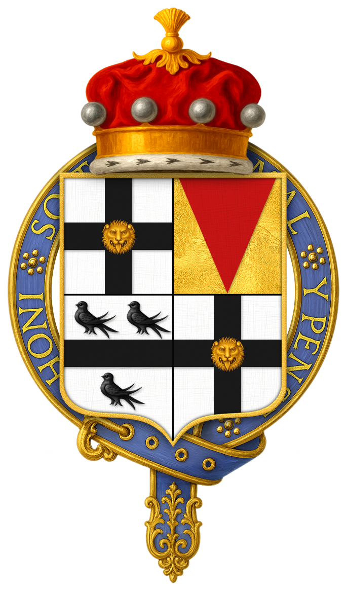 Quartered arms of Sir Edmund Brydges, 2nd Baron Chandos, KG. Argent, on a cross sable a leopard's face or (Brydges) quartering: Or, a pile gules (Chandos)